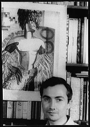 Title: Portrait of Prentiss Taylor Abstract/medium: 1 photographic print : gelatin silver.